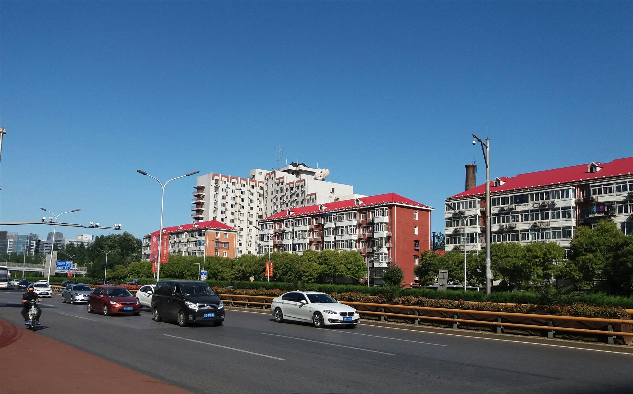 North West of Beijing 4th Ring Road